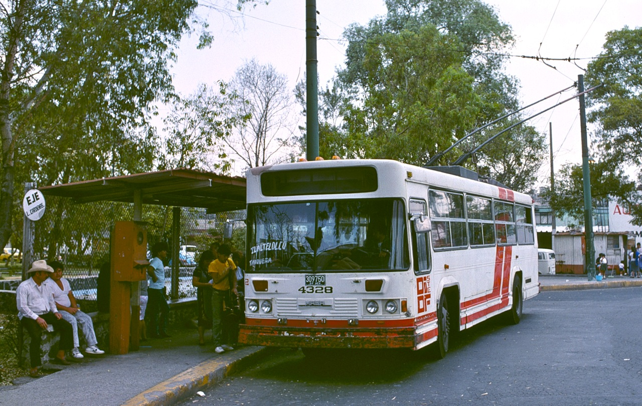 A trolleybus on STE's line A (Eje Central), loading at the Tasqueña terminus, in southern Mexico City and across the street from Tasqueña metro station. The vehicle was built in 1985 by MASA.